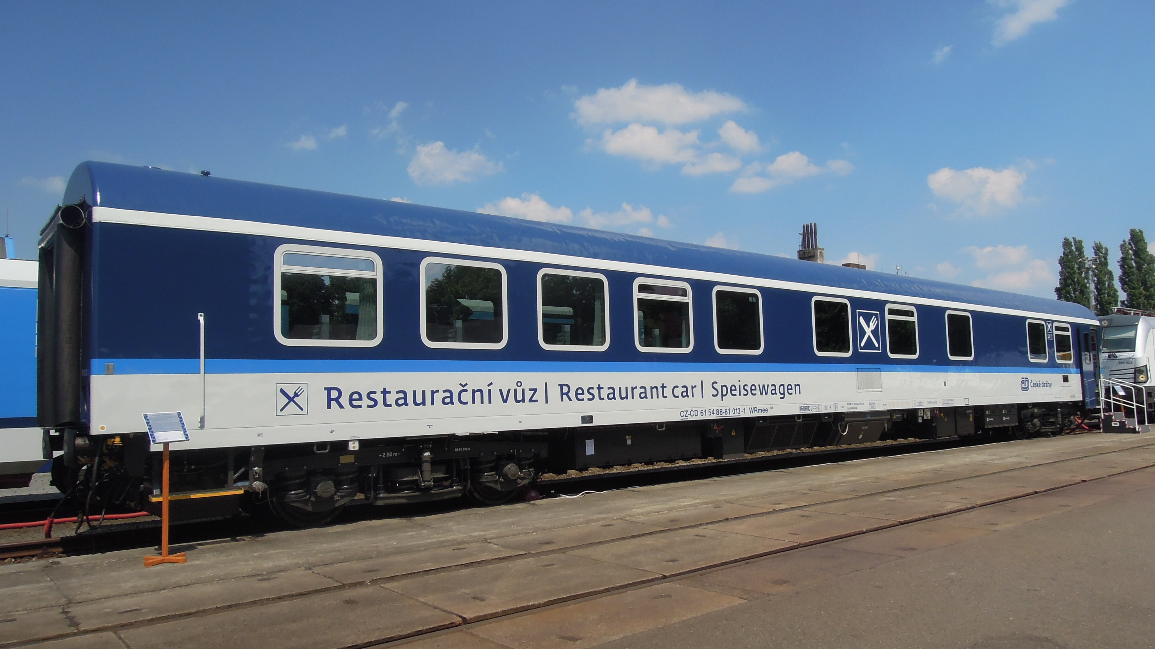 Dining car class WRmee816 of České dráhy at the Czech Raildays 2013 trade fair in Ostrava, Czech Republic